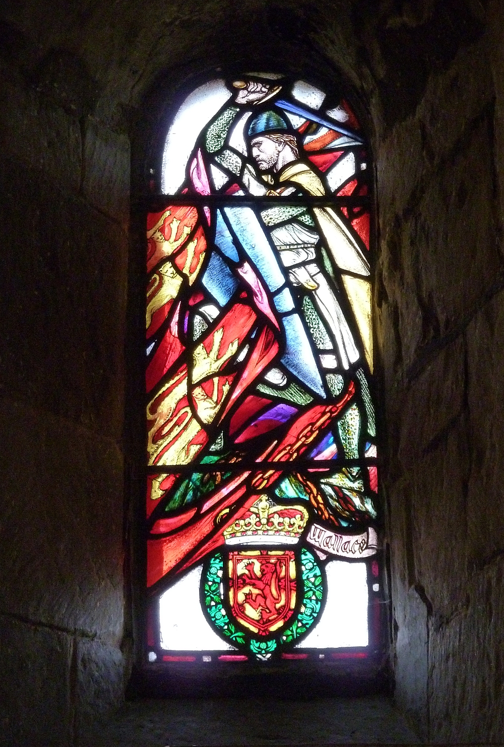 St Margaret's Chapel - William Wallace window. This colourful and action-packed stained glass window celebrates the Scottish hero, William Wallace, victor against the English at the battle of Stirling Bridge in 1297. He was Guardian of Scotland from this time up until his defeat... more